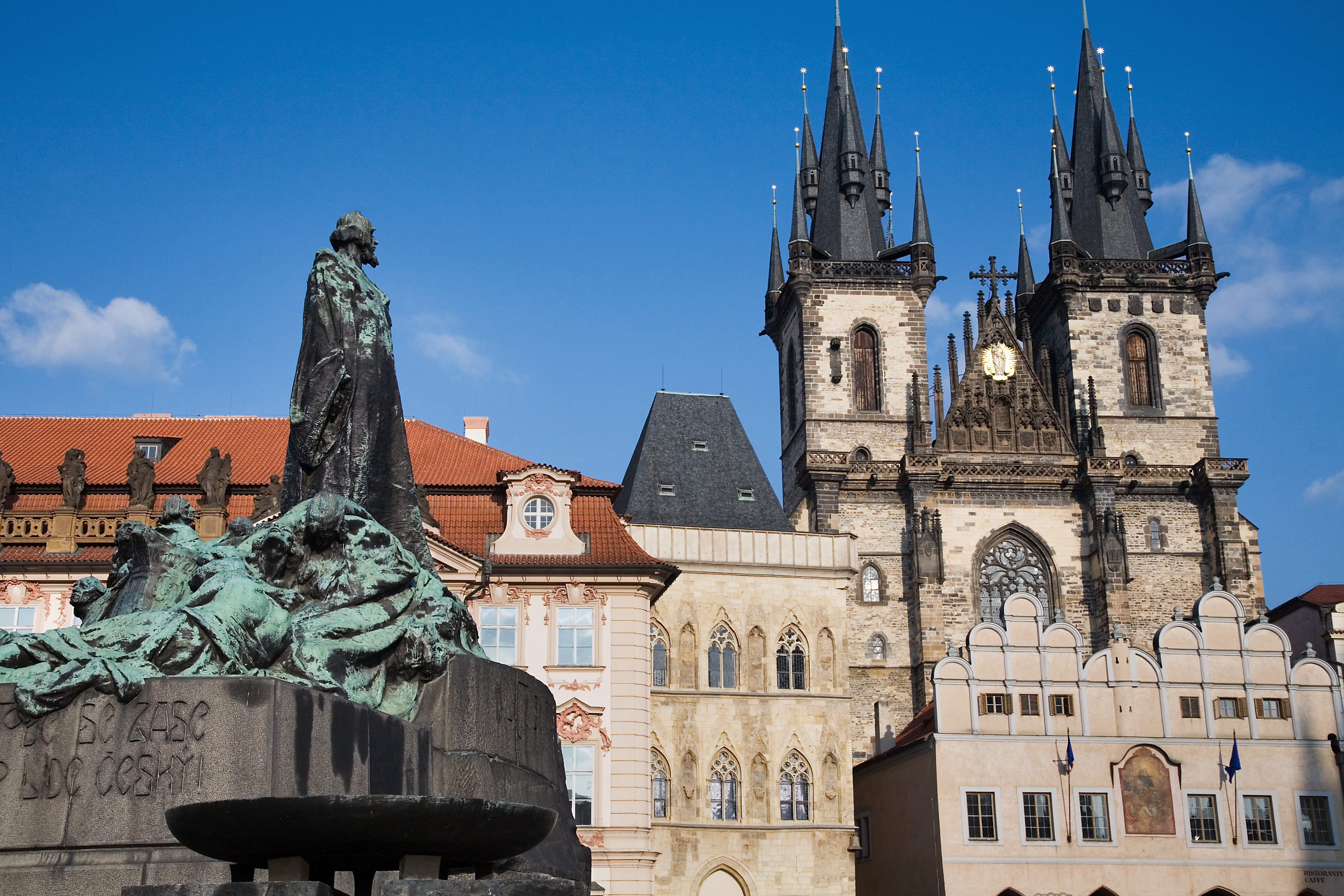 Jan Hus Statue and Tyn Church, Old Town Square, Prague, Czech Republic